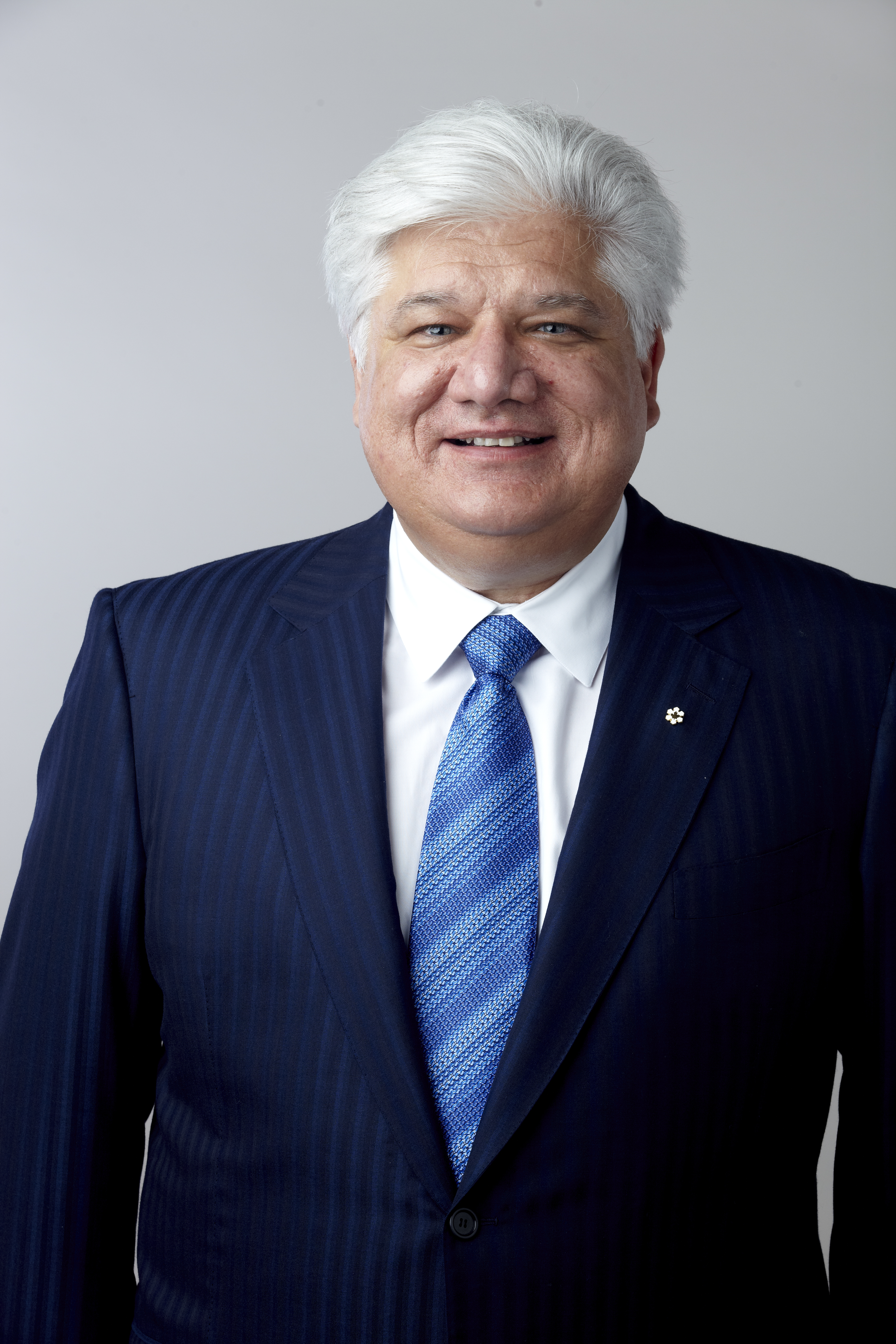 Mr Mike Lazaridis OC FRS, Royal Society Fellow elected 2014 Attribution: The Royal Society